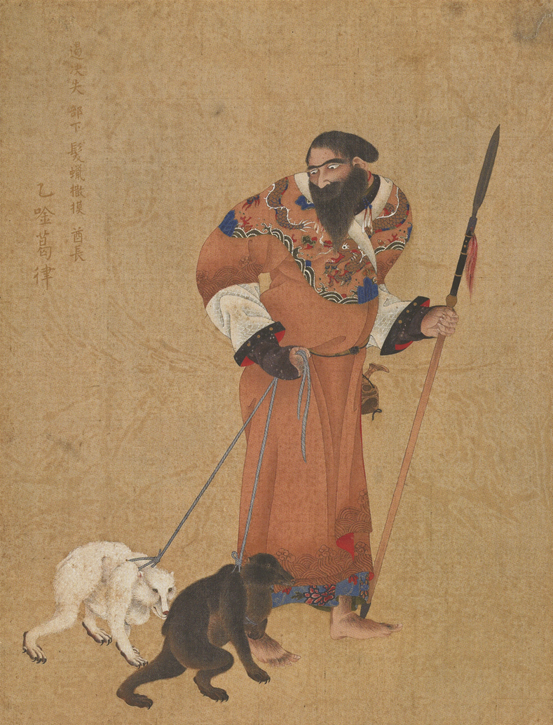 Ishuretsuzo: Ininkari, Ainu Chieftain of Akkeshi, by Kakizaki Hakyo, Musée des Beaux-Arts et d'archéologie de Besançon, France